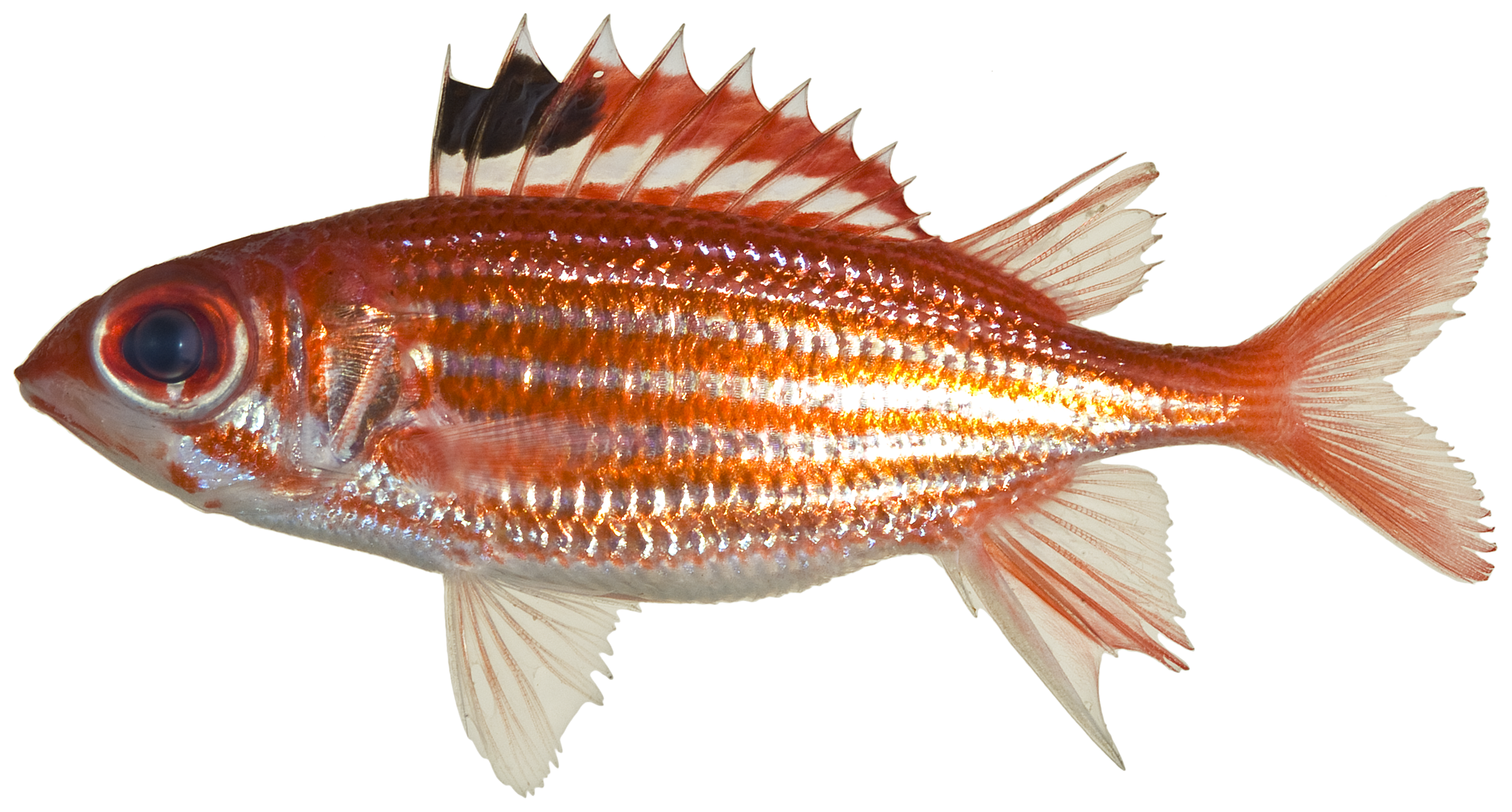 Sargocentron coruscum (Poey, 1860)—reef squirrelfish, 81.7 mm SL. Photo by JT Williams.